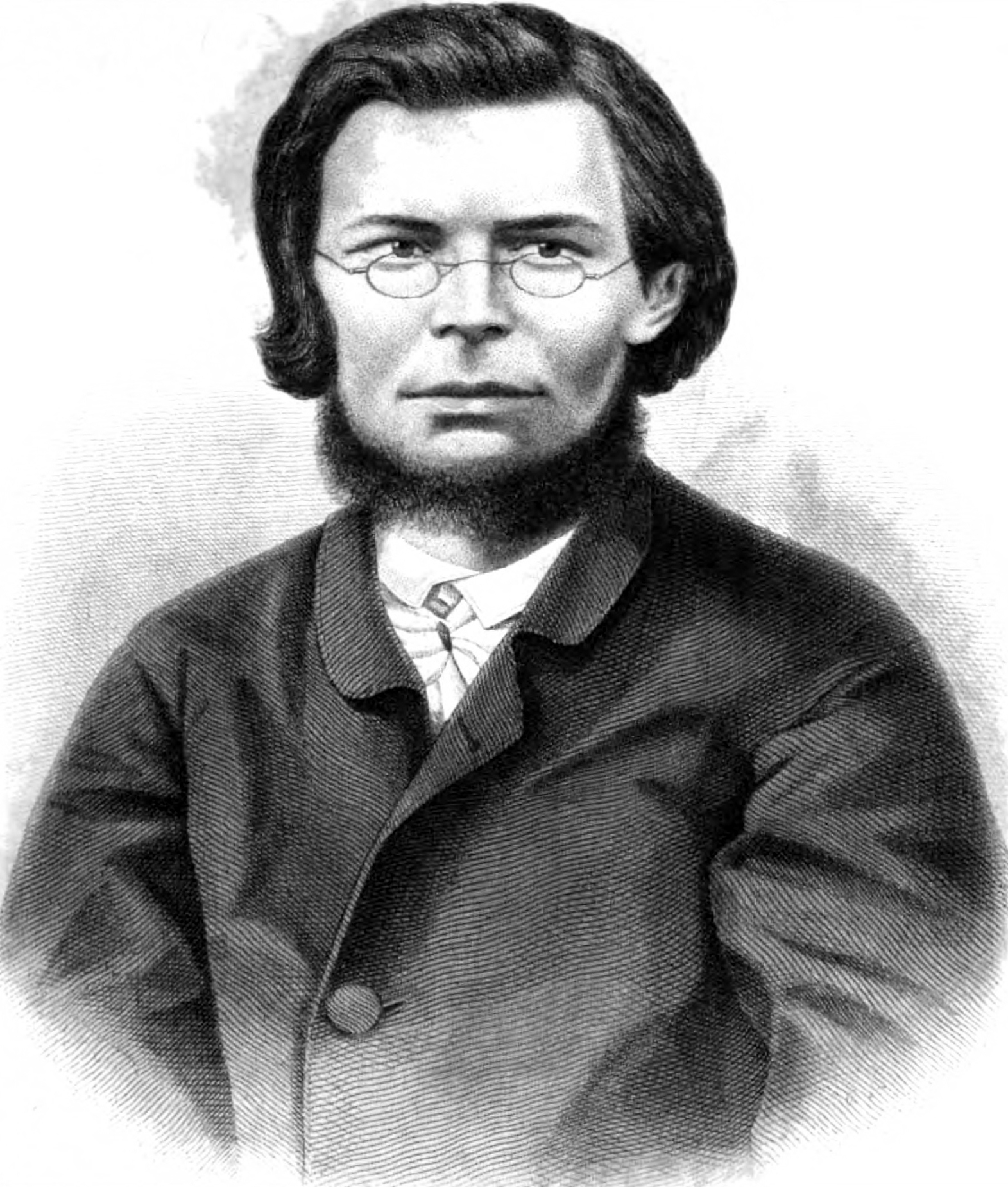 Russian writer Fyodor Mikhailovich Reshetnikov